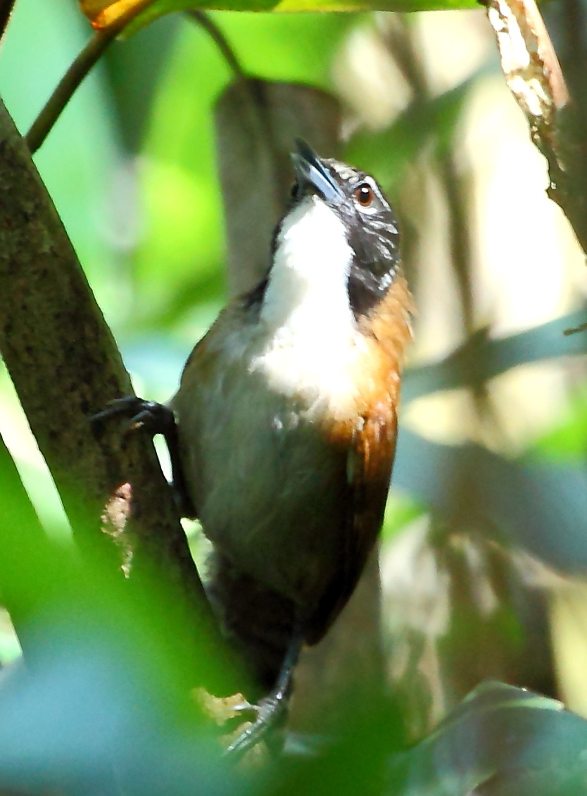 Coraya wren at Presidente Figueiredo - AM - Brazil